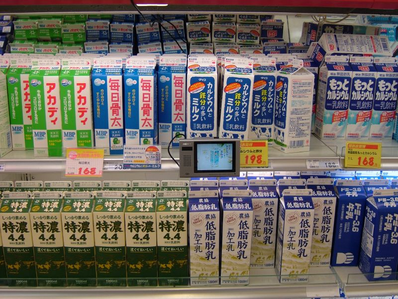 Refrigerated milk packs in the cabinets of a Japanese supermarket. Little TV nearby is advertising a product.